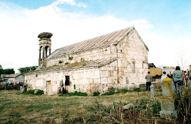 Baraleti